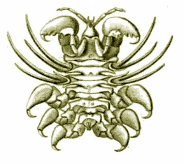 Cyamidae (parasite of whales), male, from old picture from : Annales des sciences naturelles, tome 1er, Zoologie, par MM Audouin et Milne-Edwards, Ed Crochard, paris, 1834